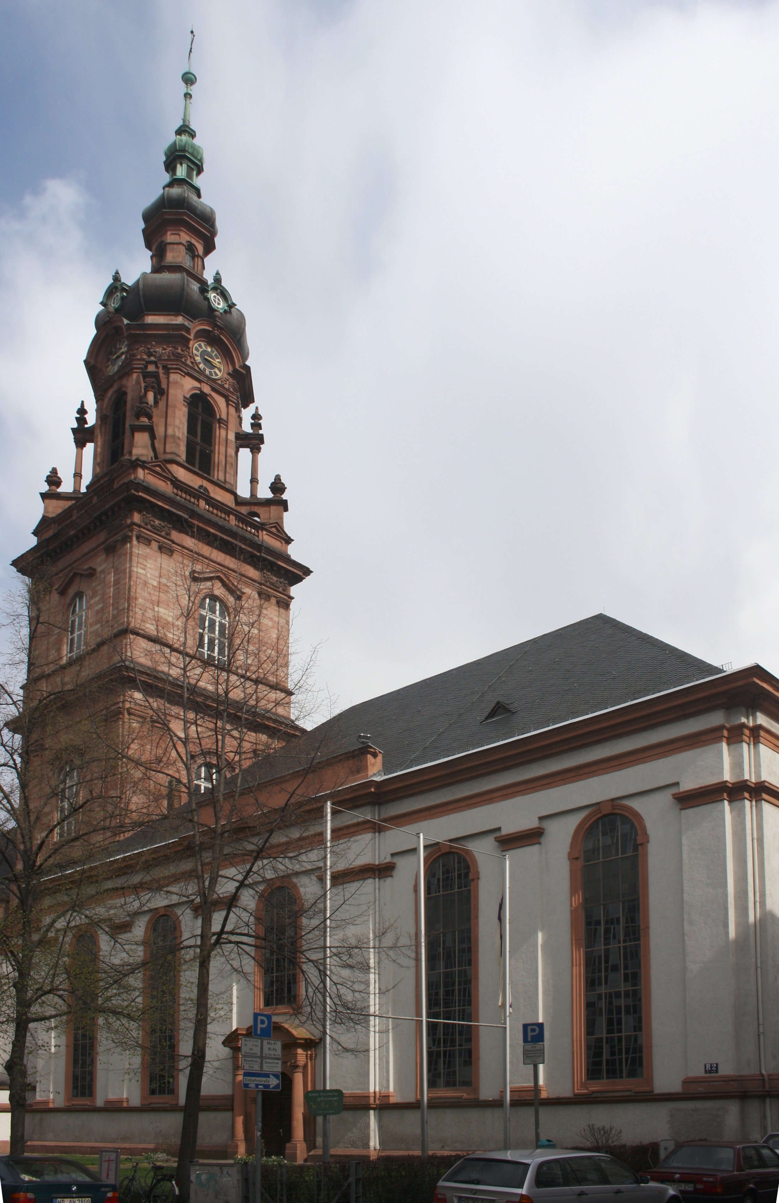 Mannheim, Germany. City-church Konkordien.